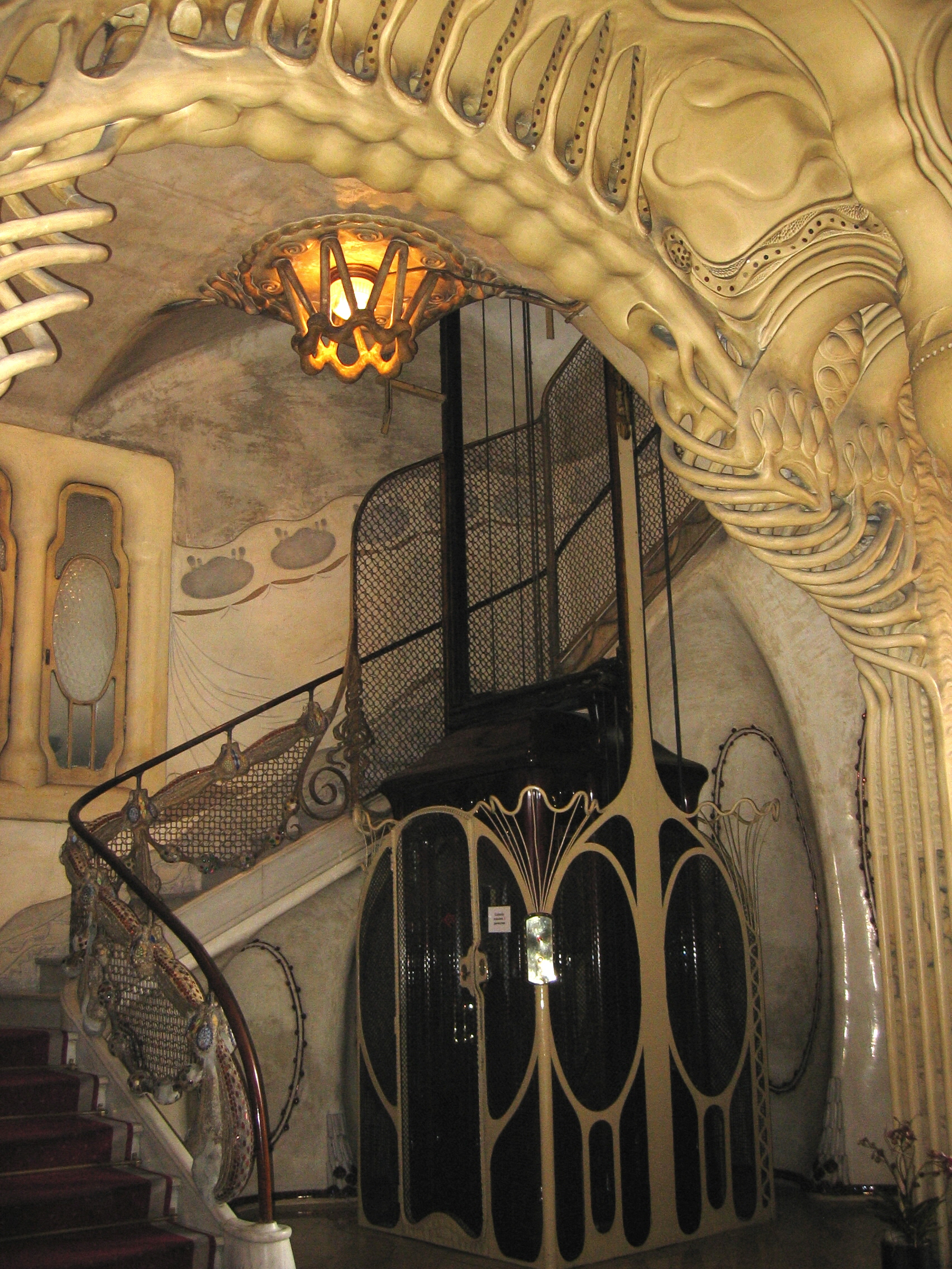 Casa sayrach, Avinguda Diagonal 423-425, Barcelona, Spain. Architecht Sayrach (1918)